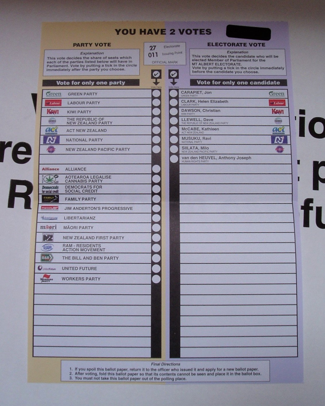 Ballot for the Mt Albert electorate in the 2008 New Zealand general election.